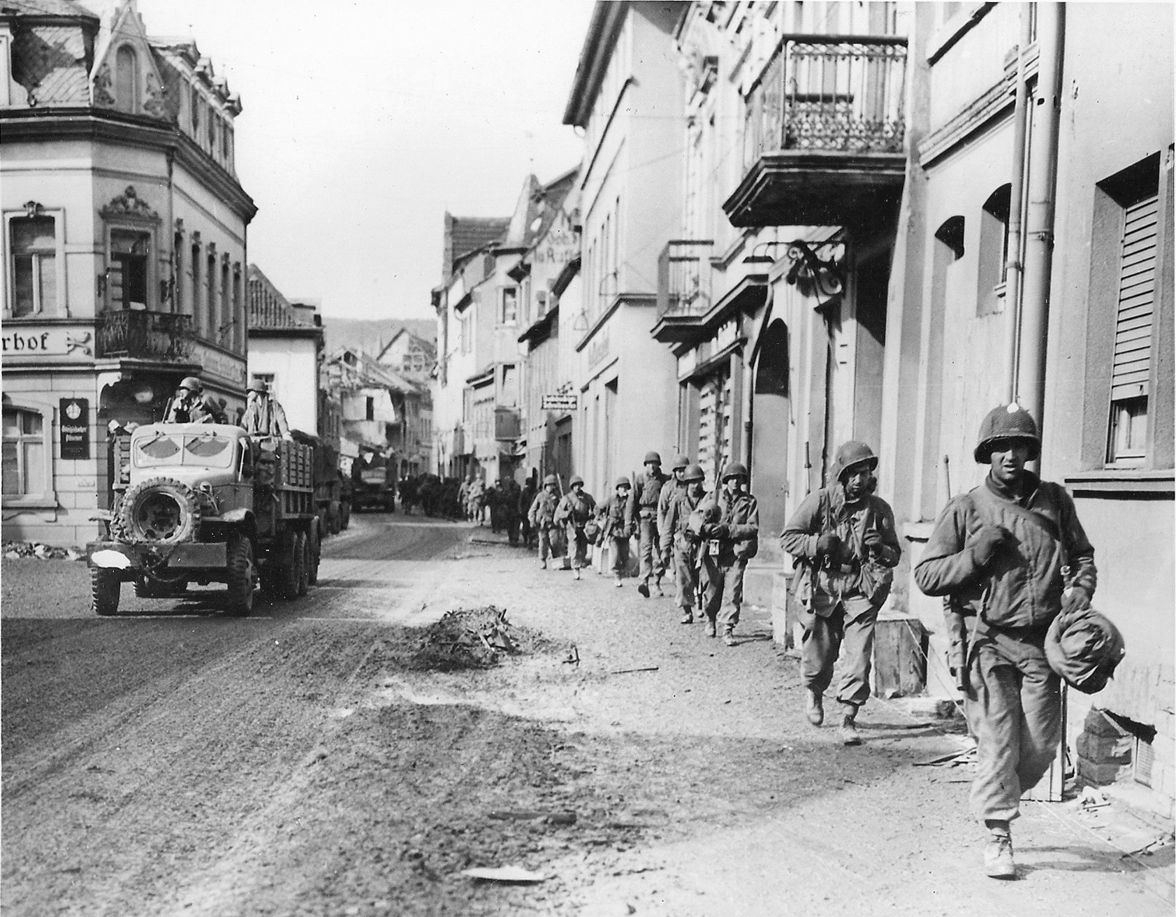 Troops of the 47th Infantry Regiment, attached to the 9th Infantry Division, march through Remagen to cross the Ludendorff Bridge on March 9, 1945. They were assigned to a task force of Combat Command B of the 9th Armored Division, consisting in part of the 47th Infantry Regiment, 27th Armored Infantry Battalion and the 14th Armored Battalion.